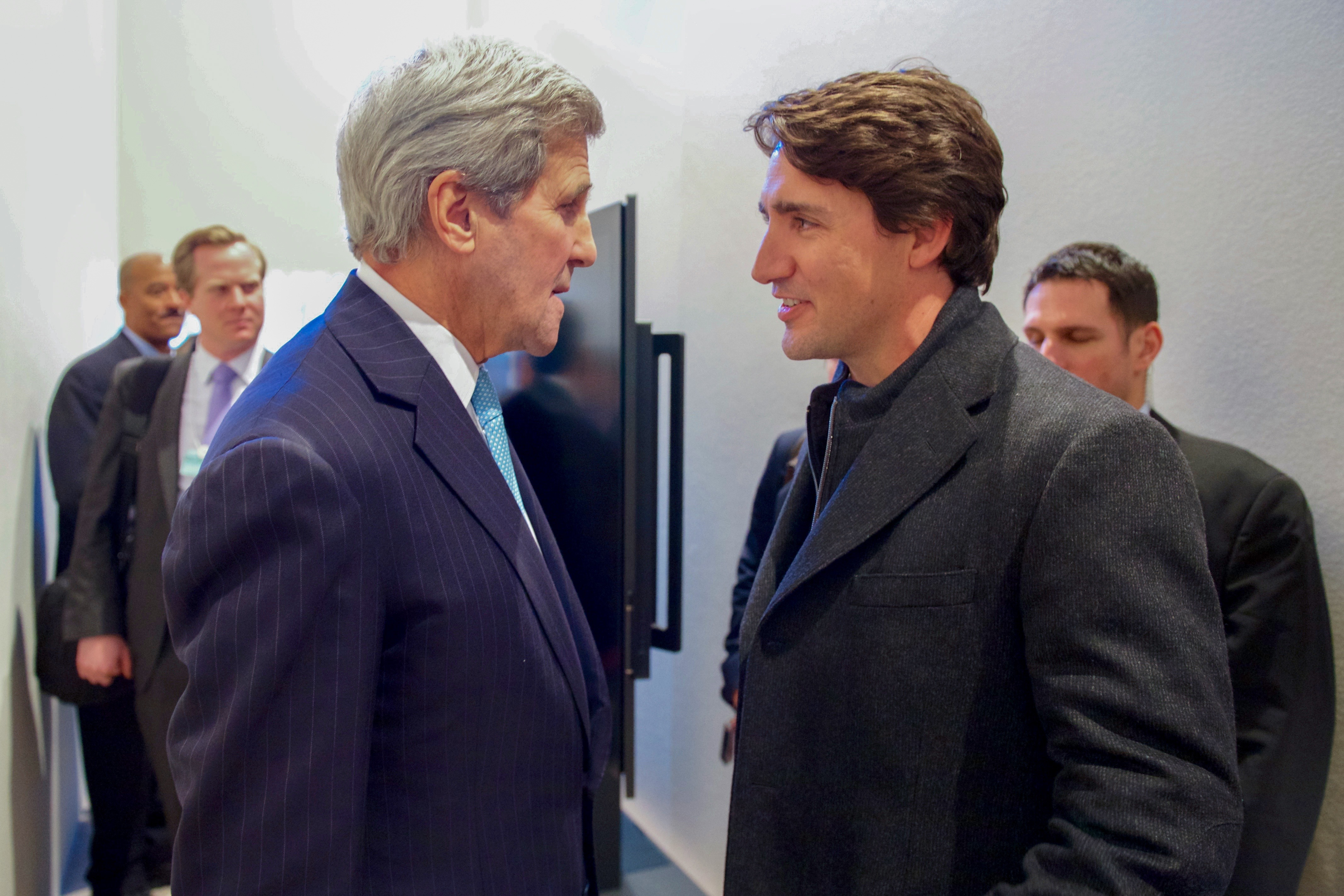 U.S. Secretary of State John Kerry embraces newly inaugurated Canadian Prime Minister Justin Trudeau on January 21, 2016, after the two ran into one another at the World Economic Forum in Davos, Switzerland. [State Department photo/ Public Domain]